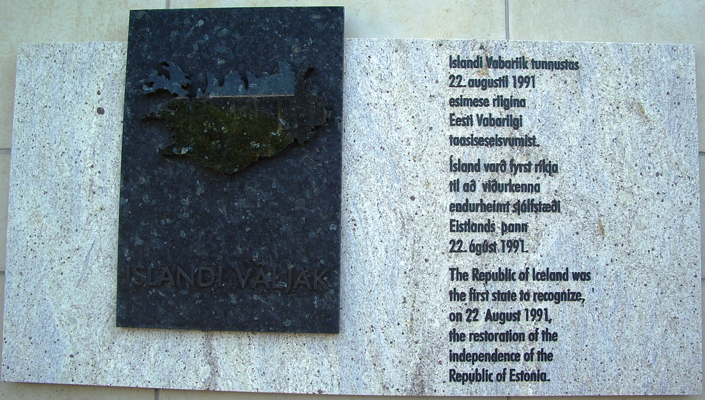 The Republic of Island was the first state to recognize, on 22 August 1991, the restoration of the independence of the Republic of Estonia.